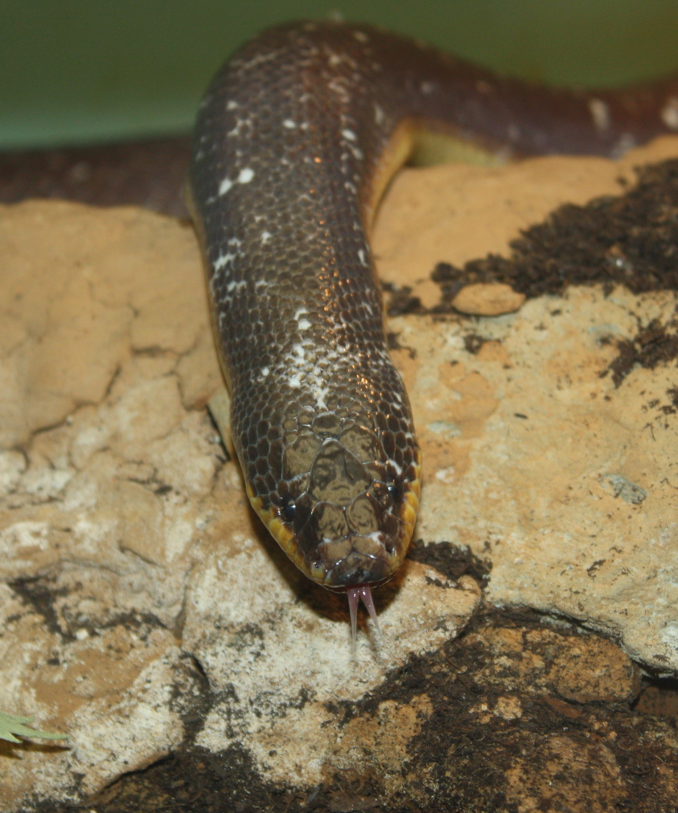 Mexican Burrowing Python Loxocemus bicolor at the Louisville Zoo